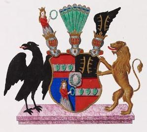 Coat of arms of Counts Bernstorff